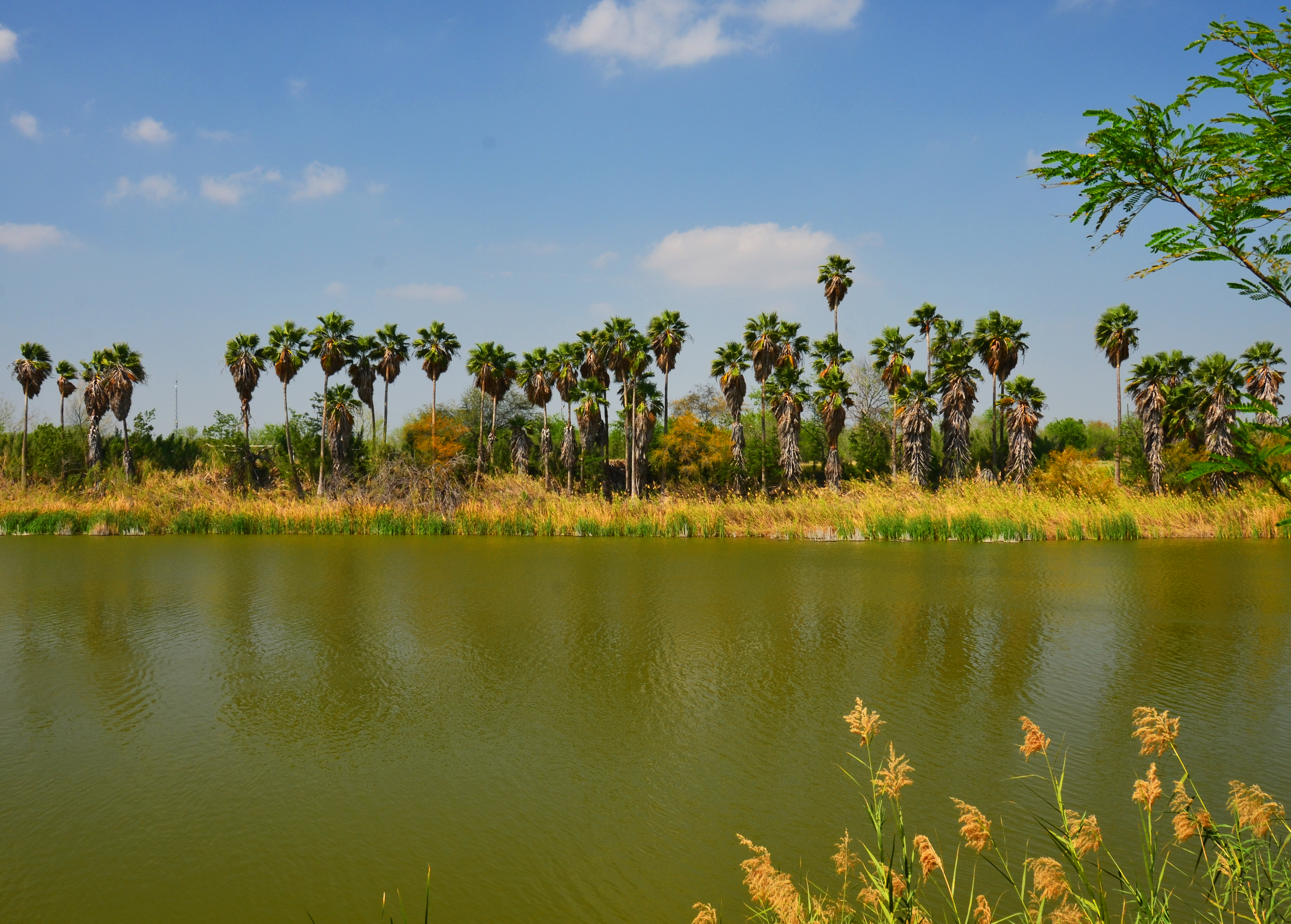 Bentson-Rio Grande Valley State Park